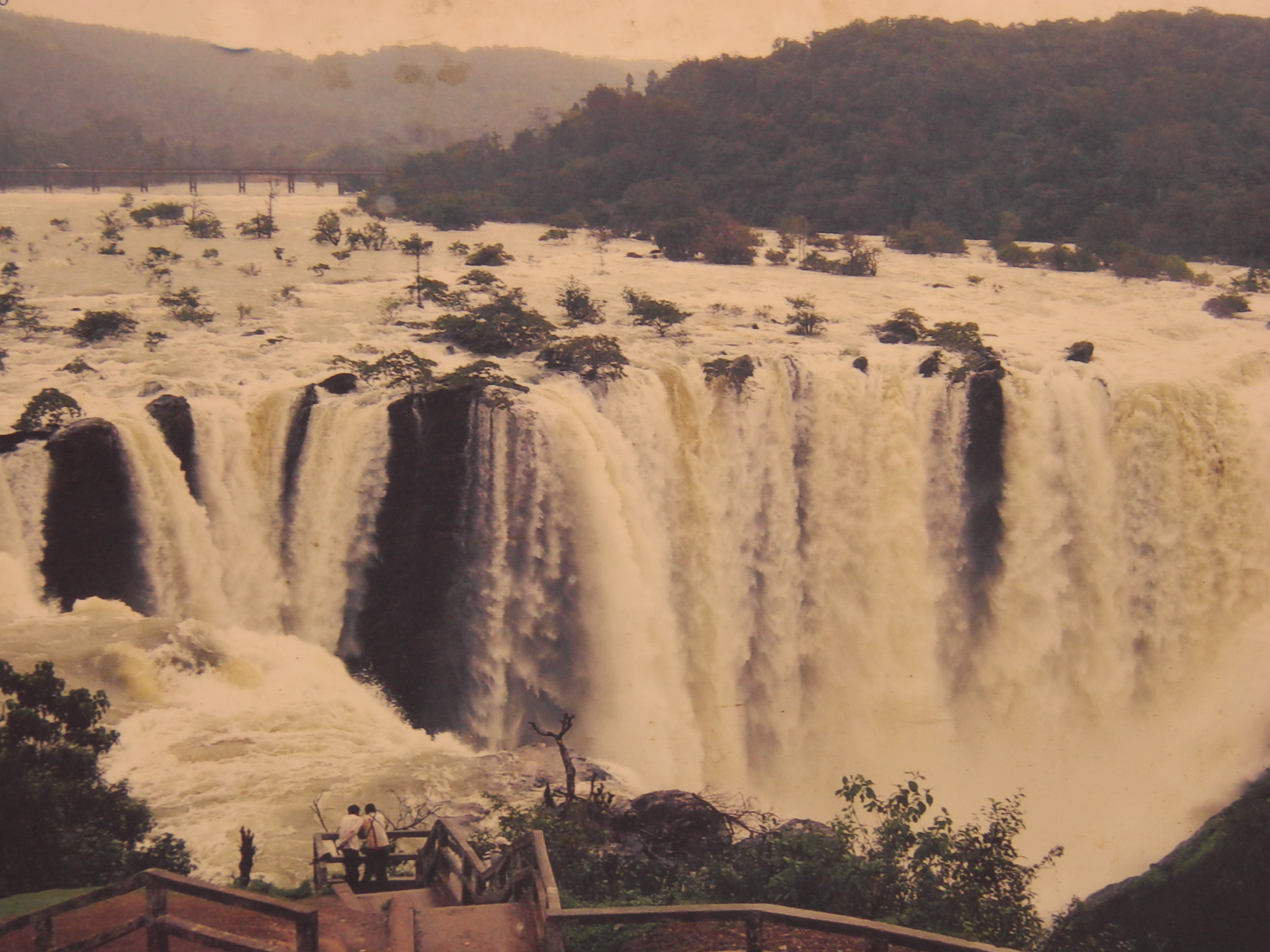 Jog Falls, India, in Full Flow Sepia